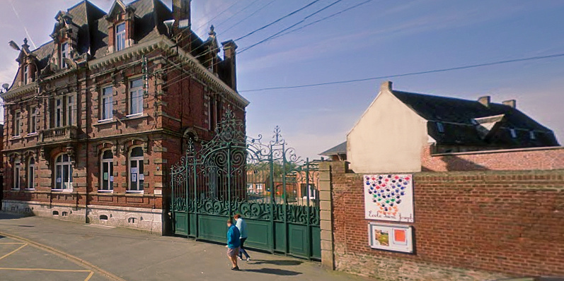 École Saint-Joseph Solesmes (Nord) façade: 2 of the main buildings.